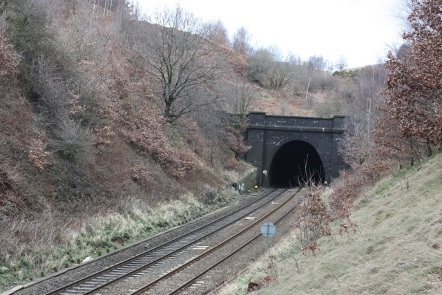 Morley Tunnel South Portal